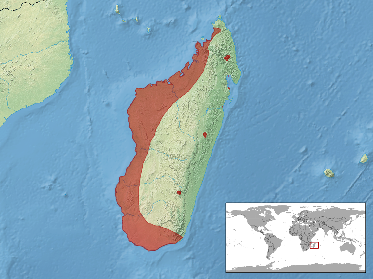 geographic distribution of Amphiglossus ornaticeps